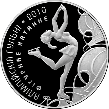 Sports. Commemorative coins "Alіmpіyskіya gulnі 2010. Fіgurnae skating" ("The Olympic Games 2010. Figure skating)